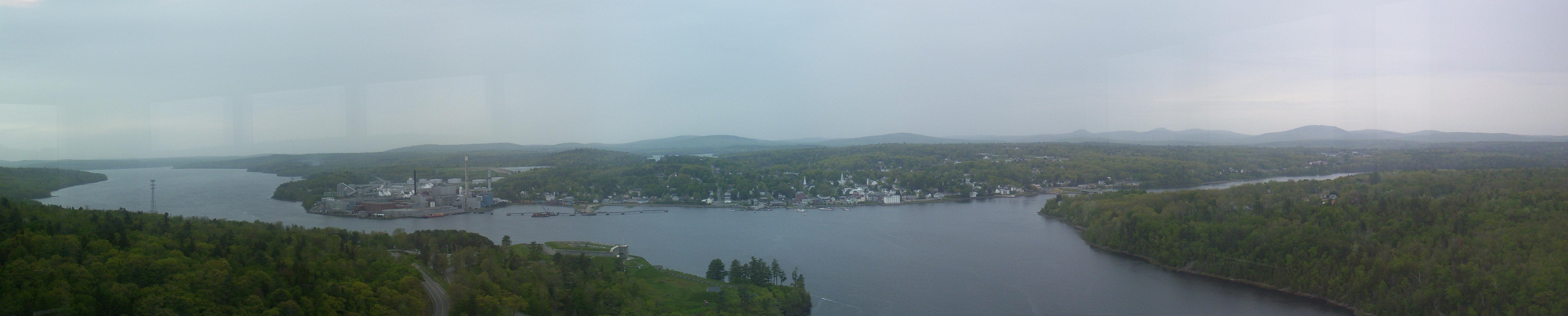 Panorama from top of Penobscot Narrows Bridge overlooking Bucksport, Maine and the Penobscot River